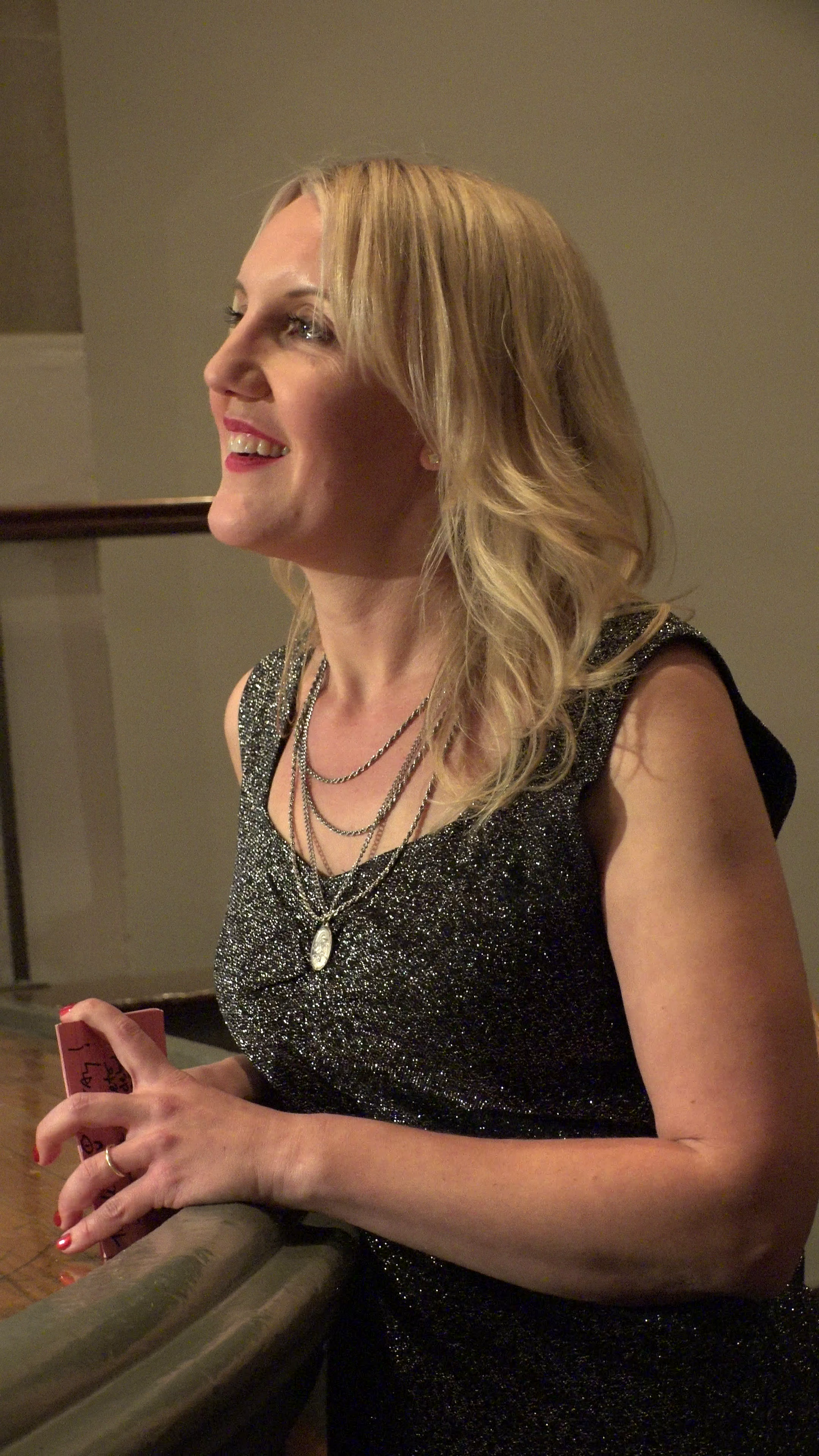 Ada Calhoun at a release party in New York Cty